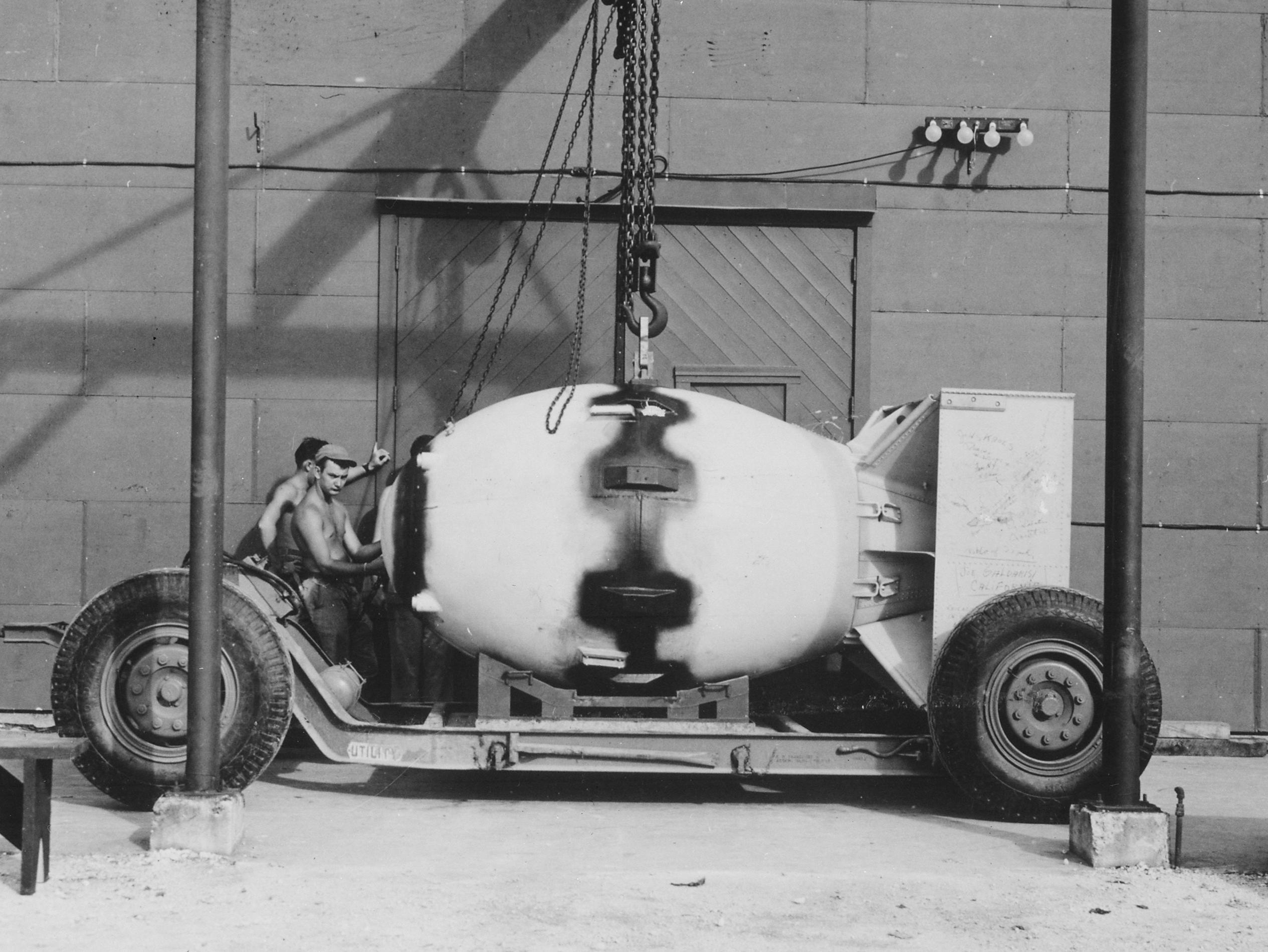 FM (Fat Man) unit being placed on trailer cradle in front of Assembly Building #2, 08/1945 Type of Archival Materials: Photographs and other Graphic Materials Level of Description: Item from Record Group 77: Records of the Office of the Chief of Engineers, 1789 - 1988 Location: Still Picture Records LICON, Special Media Archives Services Division (NWCS-S), National Archives at College Park, 8601 Adelphi Road, College Park, MD 20740-6001 PHONE: 301-837-3530, FAX: 301-837-3621, Production Date: 08/1945 Part of: Series: Photographic Prints of Atomic Bomb Preparations at Tinian Island, 1945 Access Restrictions: Unrestricted Declassified: NND 730339. Use Restrictions: Unrestricted Variant Control Number(s): NAIL Control Number: NWDNS-77-BT-187 Local Identifier: NWDNS-77-BT-187 Copy 1 Copy Status: Preservation Storage Facility: National Archives at College Park - Archives II (College Park, MD) Media Media Type: Negative Index Terms Subjects Represented in the Archival Material Atomic bomb Civil defense Nuclear energy Nuclear testing Nuclear weapons